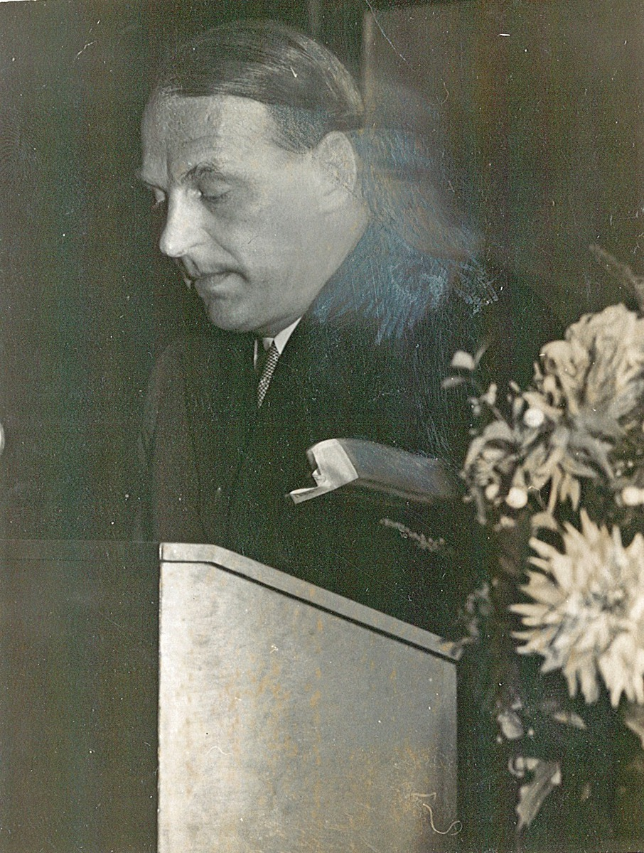 Norwegian dentisk and professor Ingjald Reichborn-Kjennerud (1901–81) around 1935 (possibly his Ph.D. defense in 1935).